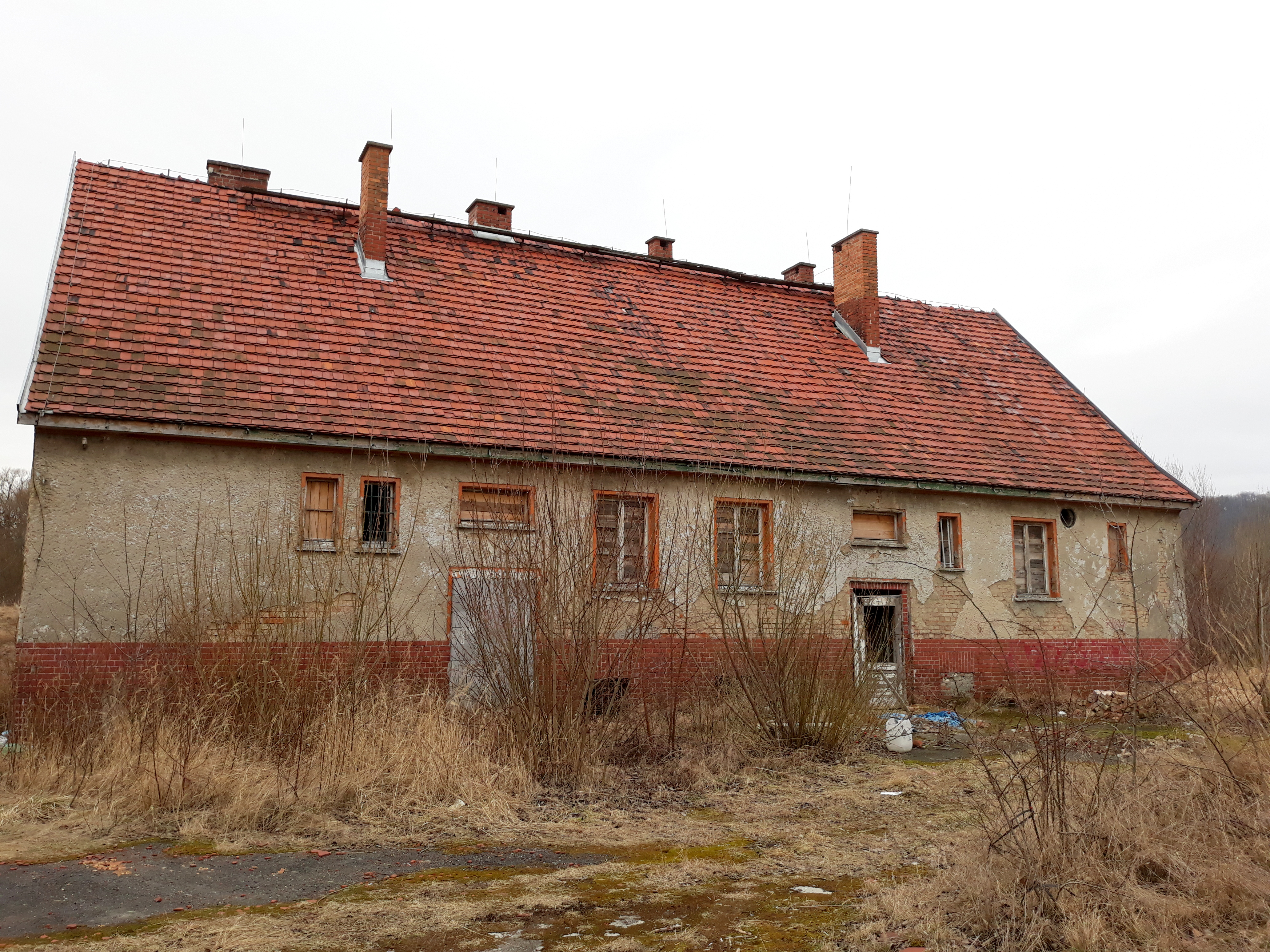 Border Protection Forces in Bliszczyce